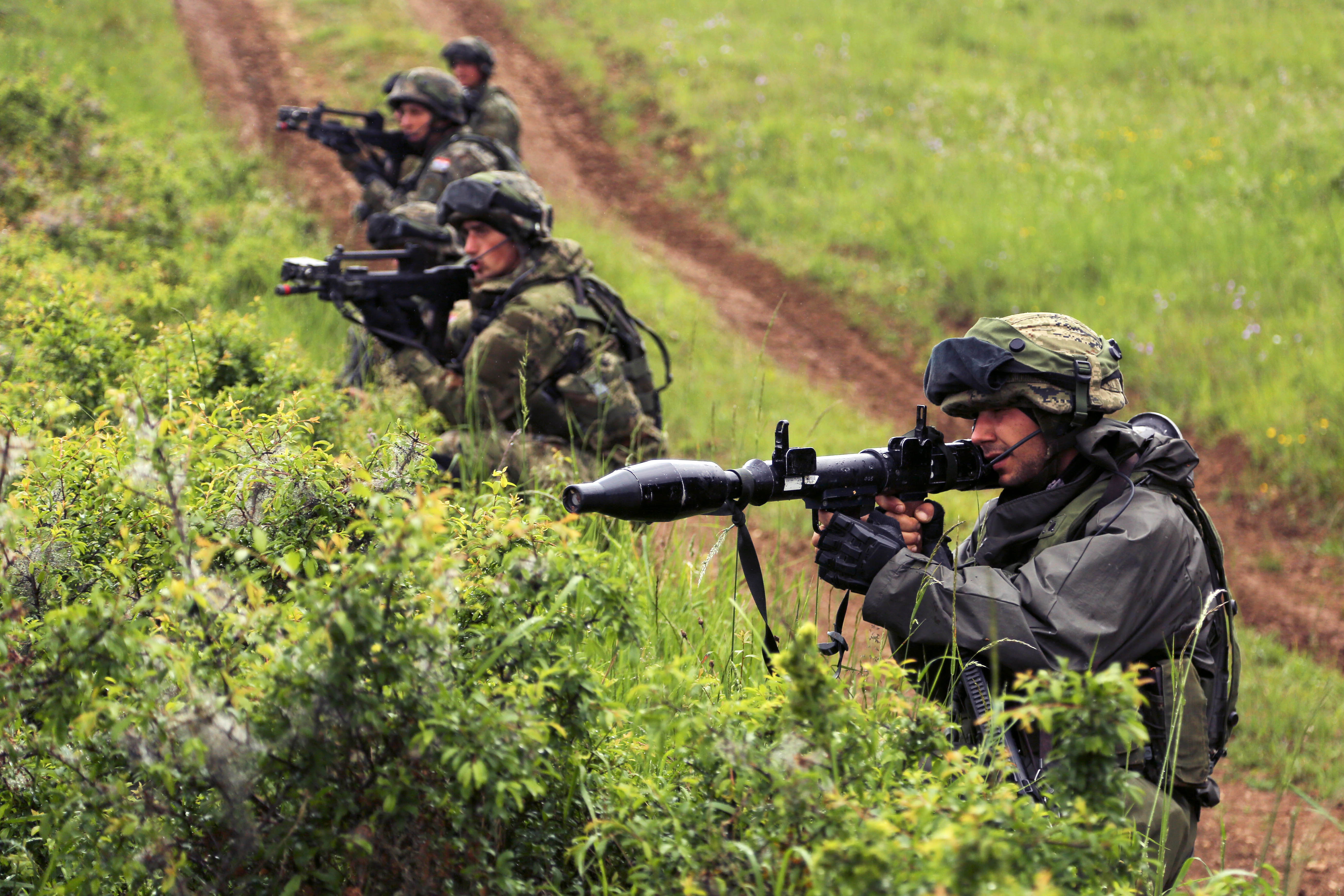 Croatian soldiers engage opposing forces during exercise Combined Resolve IV at the U.S. Army’s Joint Multinational Readiness Center in Hohenfels, Germany, May 30, 2015. The Croatian soldiers are assigned to the 3rd Mechanized Company, 1st Mechanized Battalion.